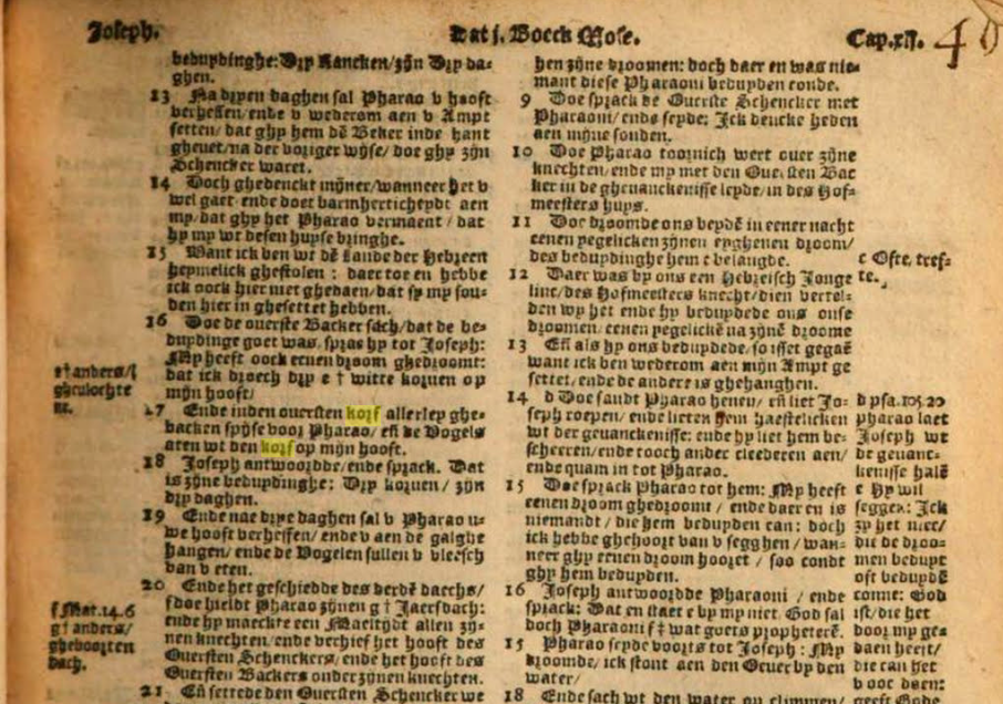 Reference to th game of Kolf or Golf played with a ball and "bat".